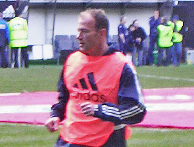 Personal photo of Alan Shearer, taken on March 13th 2005. Cropped and uploaded for use on the Shearer Wikipedia article.